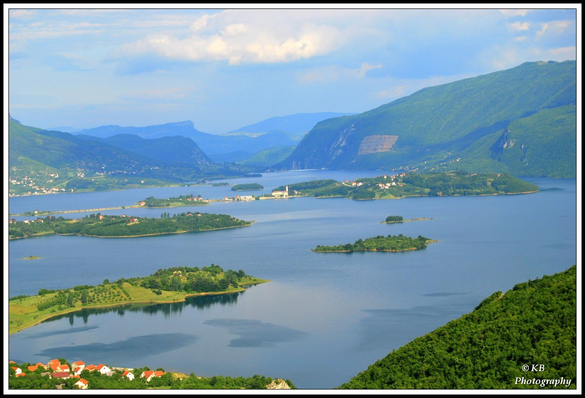 Rama lake